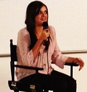 Rebecca Black Speaking in 2011